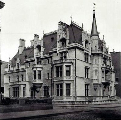 Home of Alva and William Kissam Vanderbilt, 660 Fifth Avenue, New York City, June 5, 1886. Home demolished in 1929. Architect Richard Morris Hunt. (Cropped version)